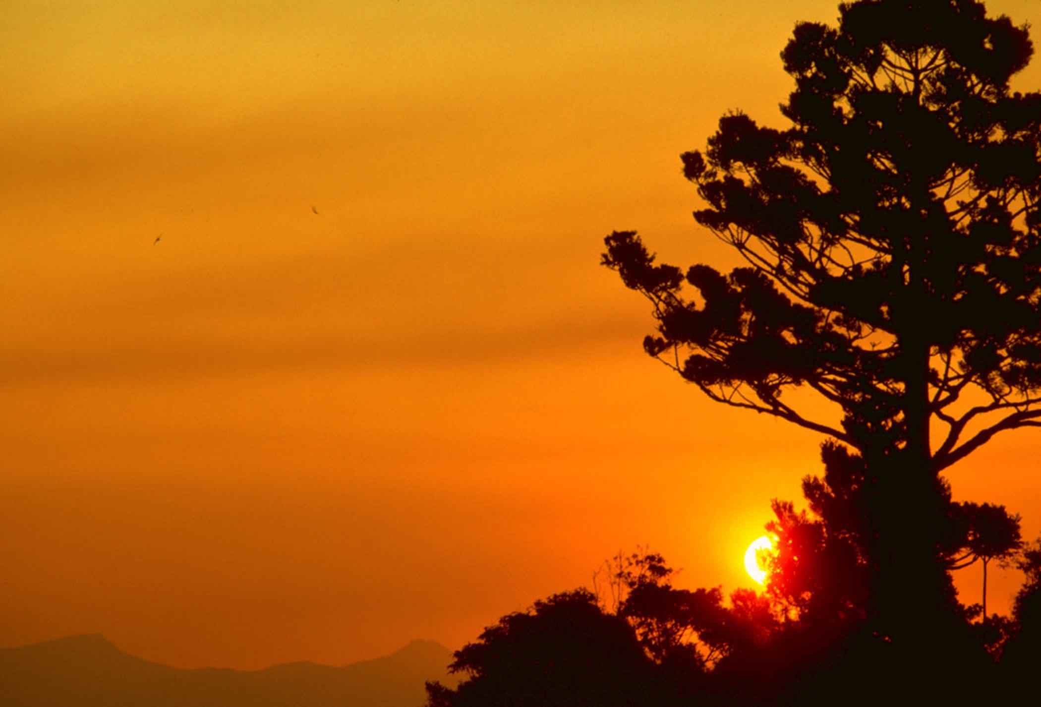 Image title: Lamington national park sunset Image from Public domain images website